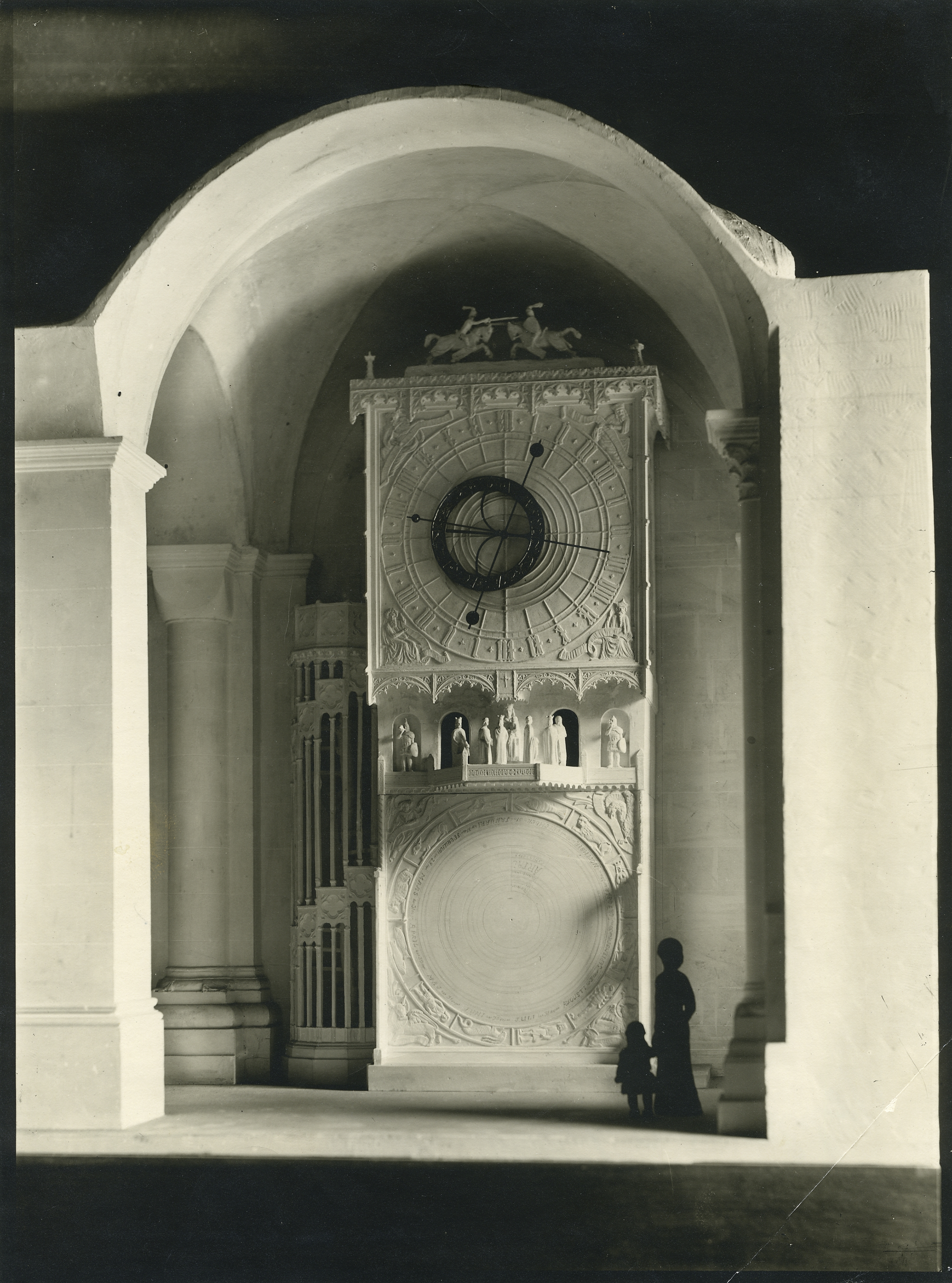 Plaster model by Theodor Wåhlin of the astronomical clock in Lund Cathedral. Model in scale 1:10.